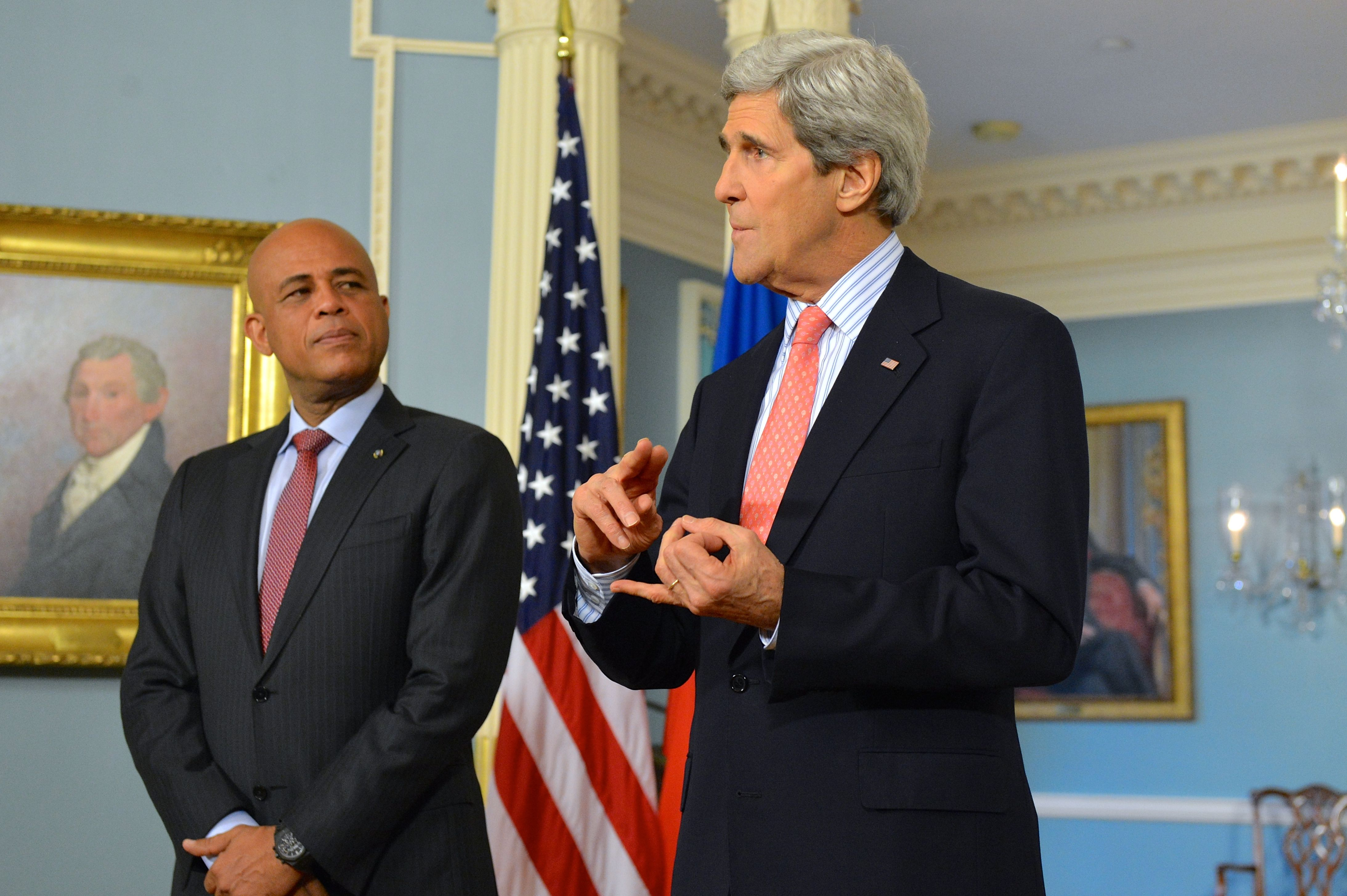 U.S. Secretary of State John Kerry and Haitian President Michel Martelly address reporters before their bilateral meeting at the U.S. Department of State in Washington, D.C., on February 5, 2014. [State Department photo/ Public Domain]